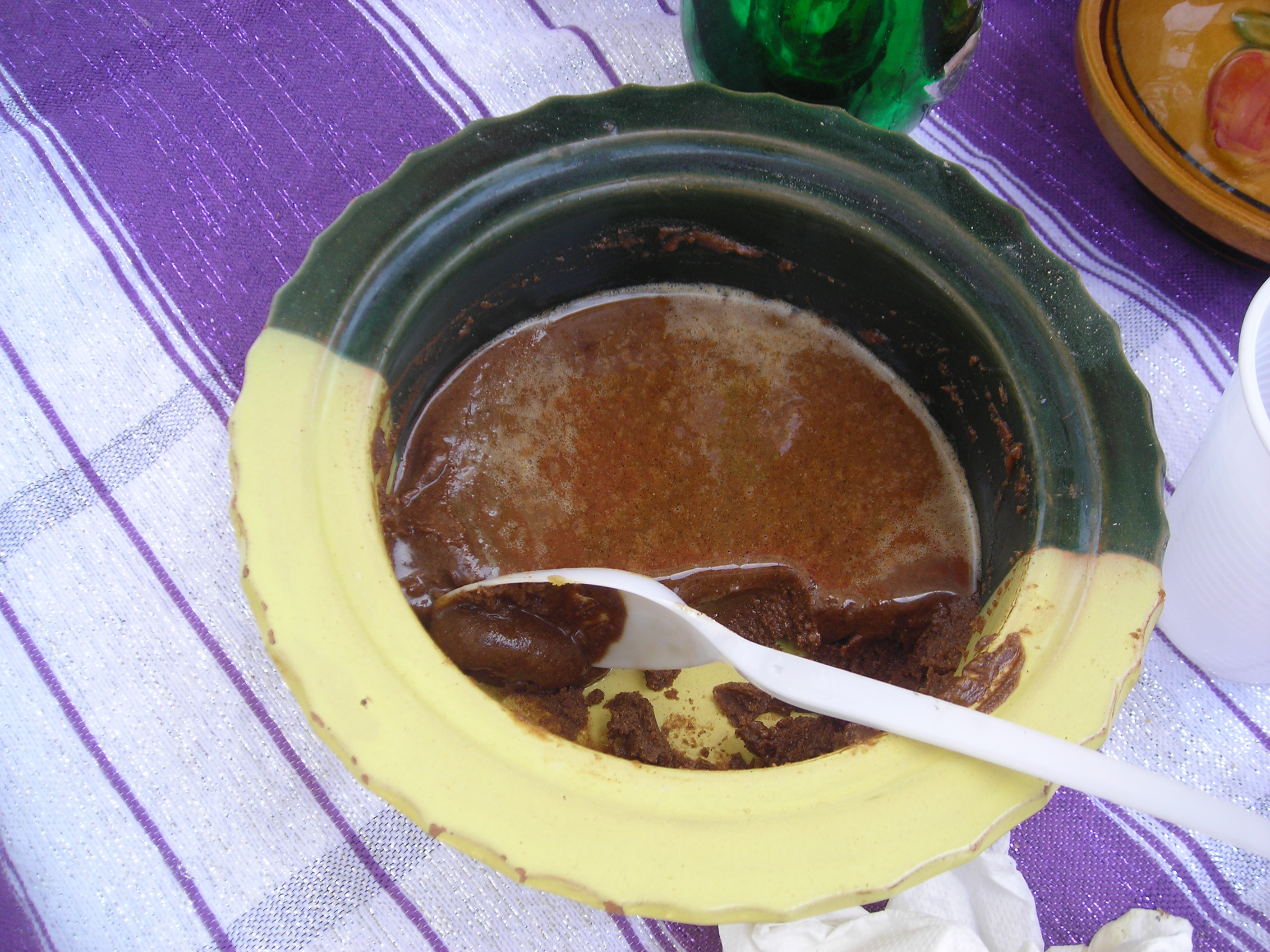 Barley Bsissa